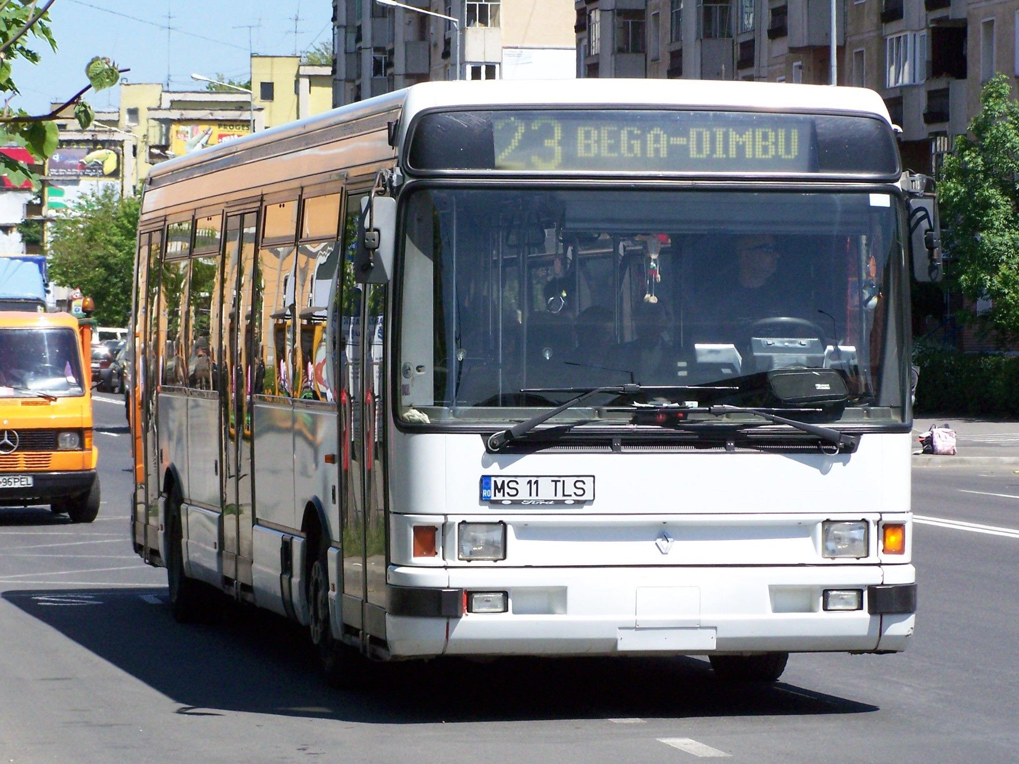 23 bus in Târgu Mureș.